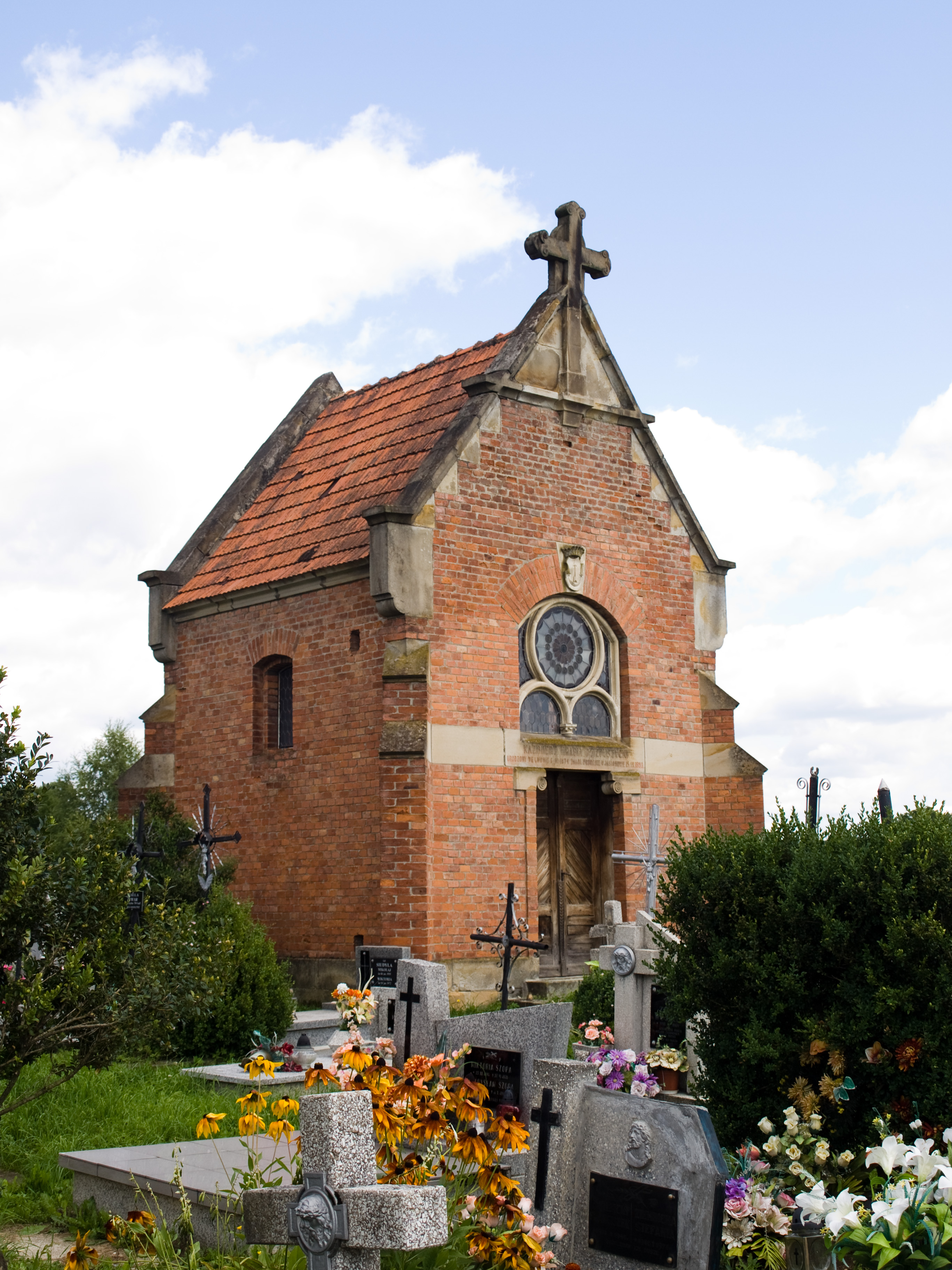 Cemetery, Jasionów, Subcarpathian Voivodeship